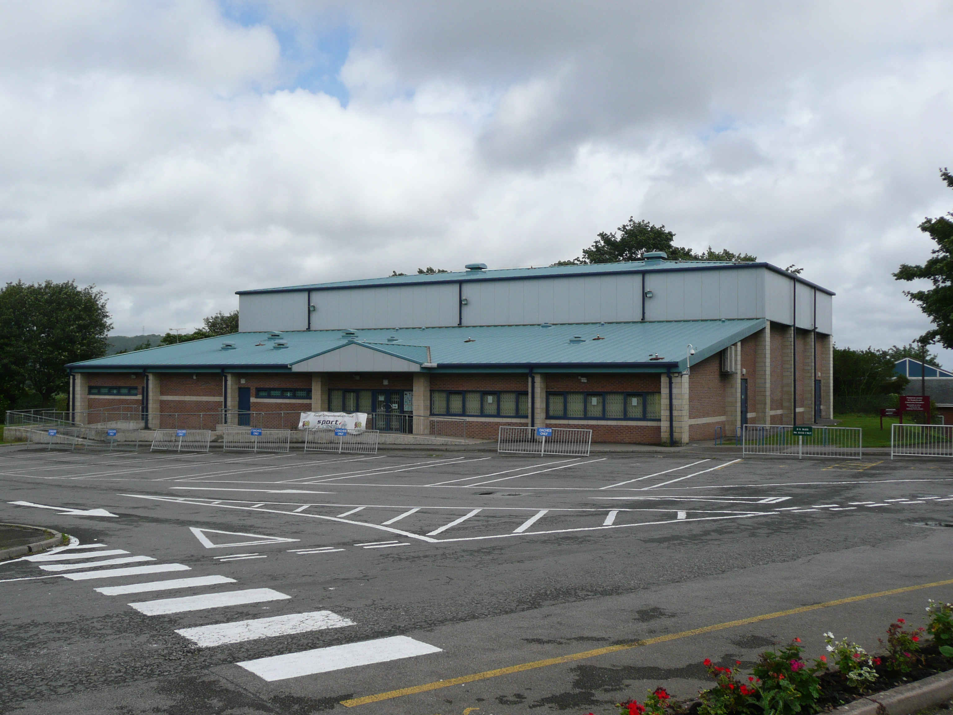 Radyr Comprehensive School Gymnasium